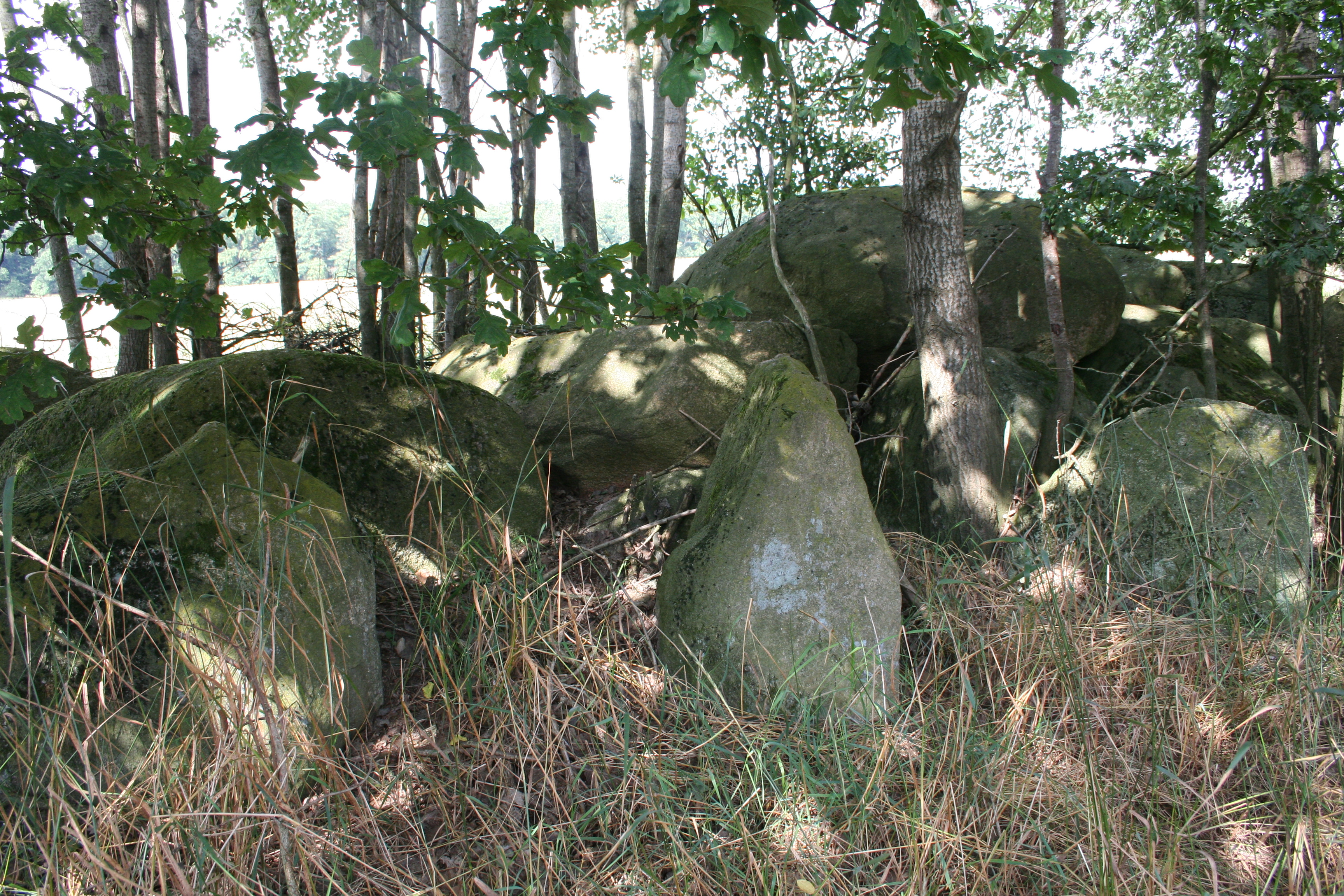 Megalithic tomb Reckum 1